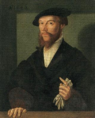 John Calvin